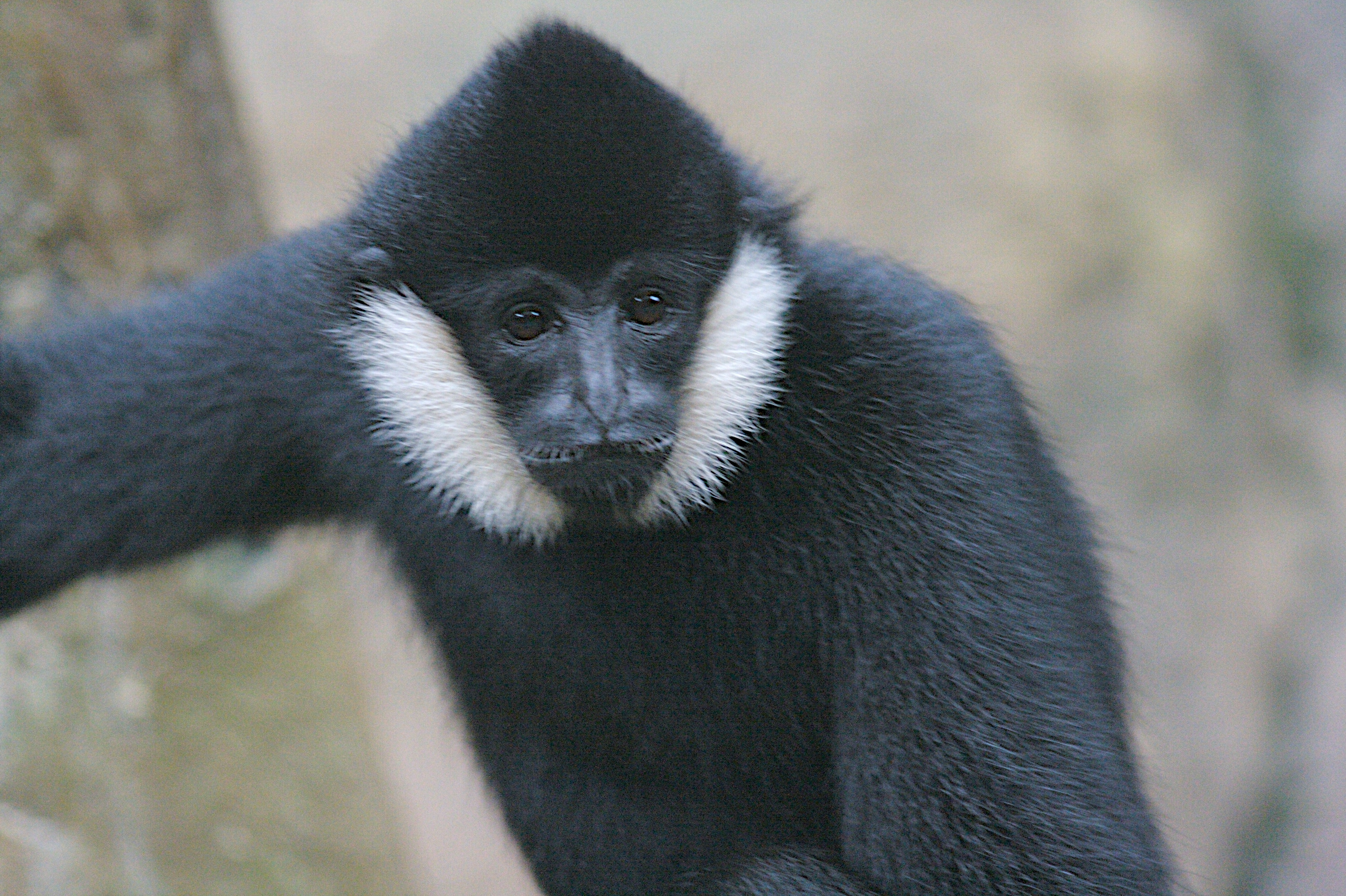 White-cheeked Gibbon